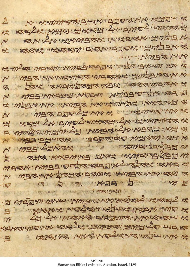 A page from Leviticus, in the Samaritan bible